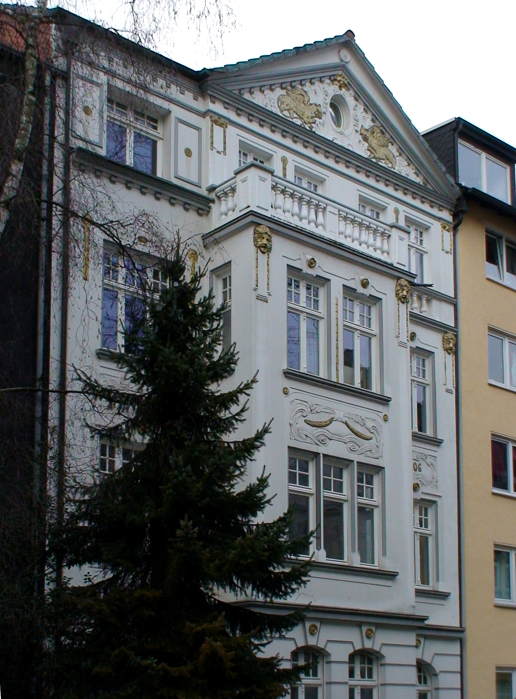 Dortmund, Dresdener Straße. Housing area built in the beginning of the 20th century.